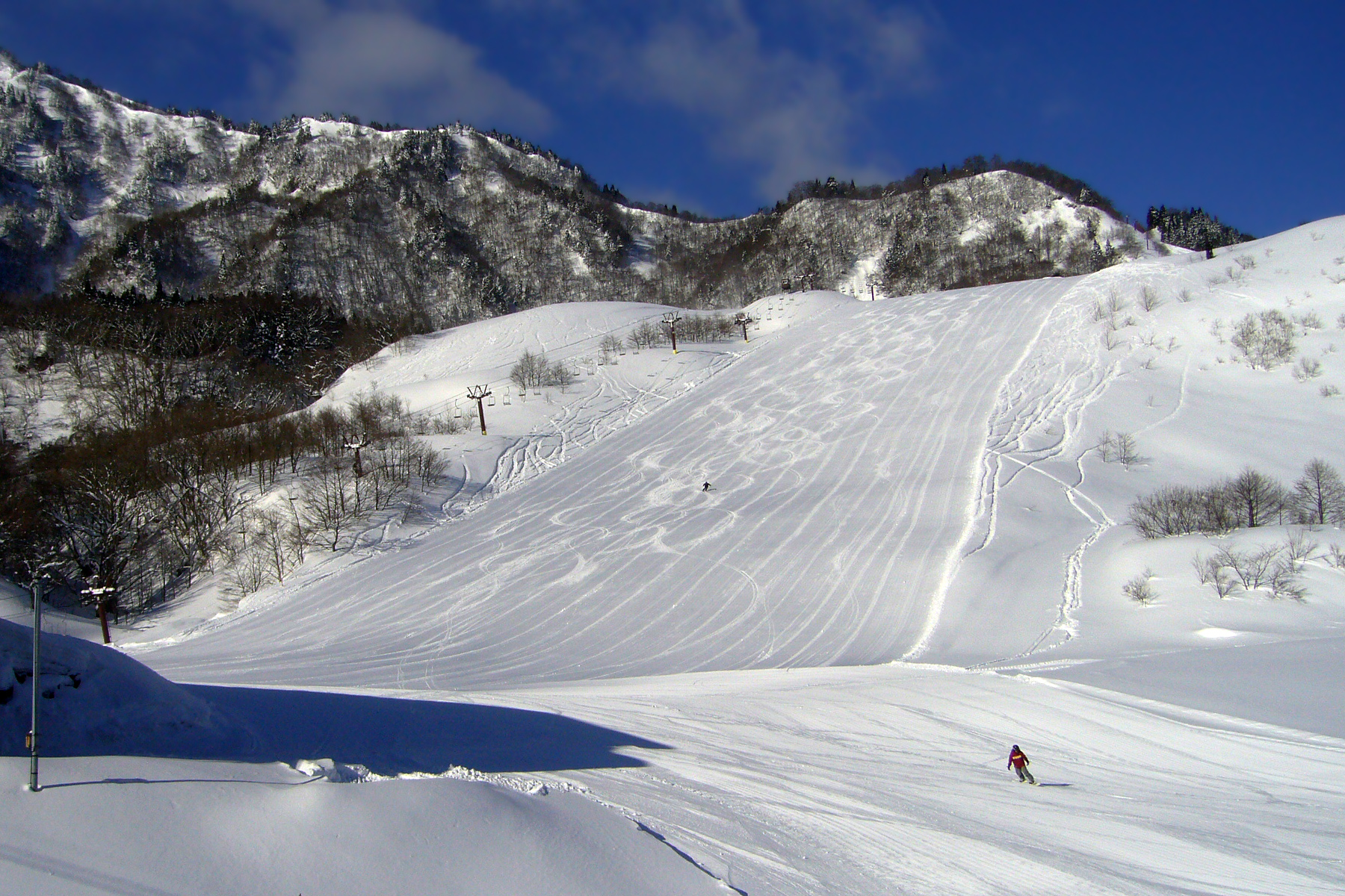 Mt.Hyonosen, Hyonosen International Ski resort in Yabu, Hyogo, Japan